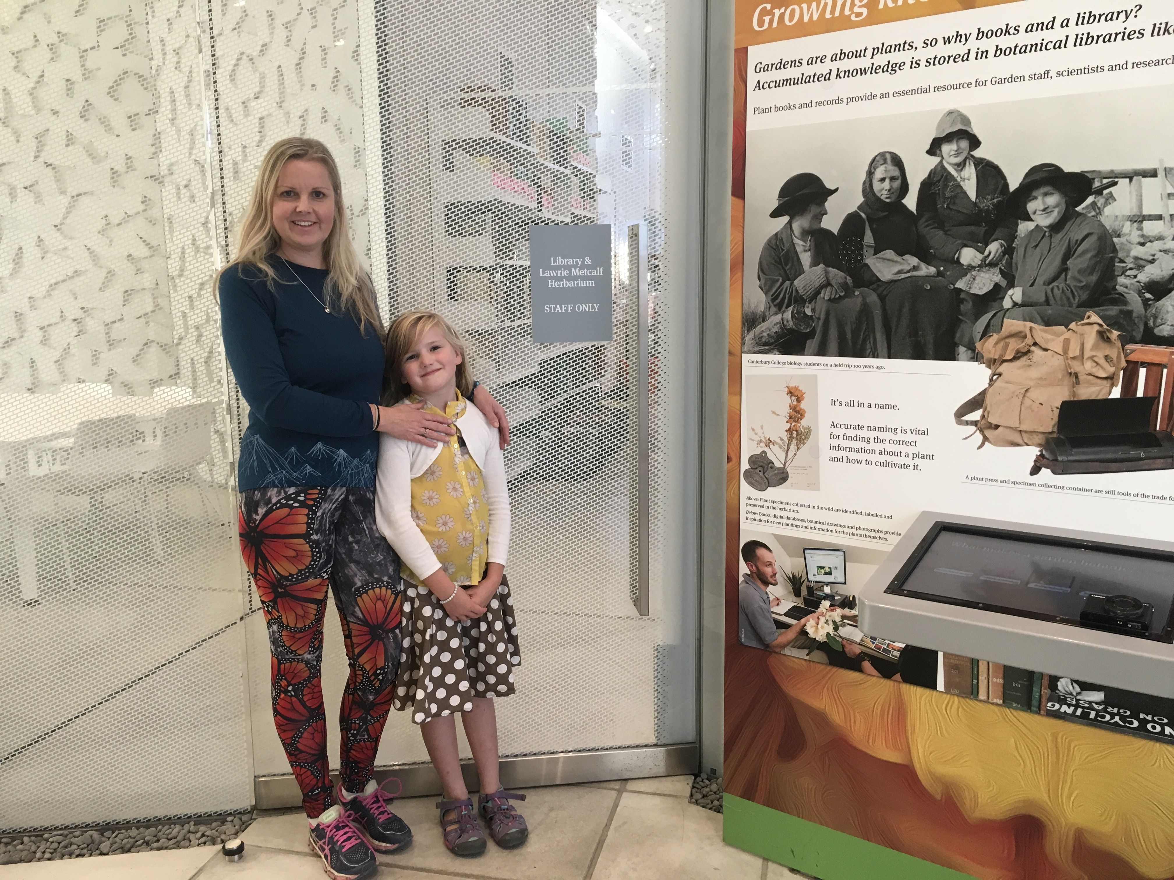 The daughter and granddaughter of Lawrie (Lawrence James) Metcalf at the entrance to his eponymous herbarium at Christchurch Botanic Gardens, New Zealand